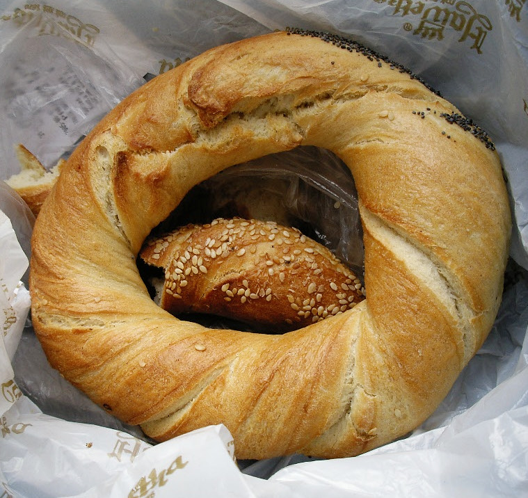 Obwarzanek. Top one is sprinkled with poppy seeds, the one in the senter is with sesame seeds